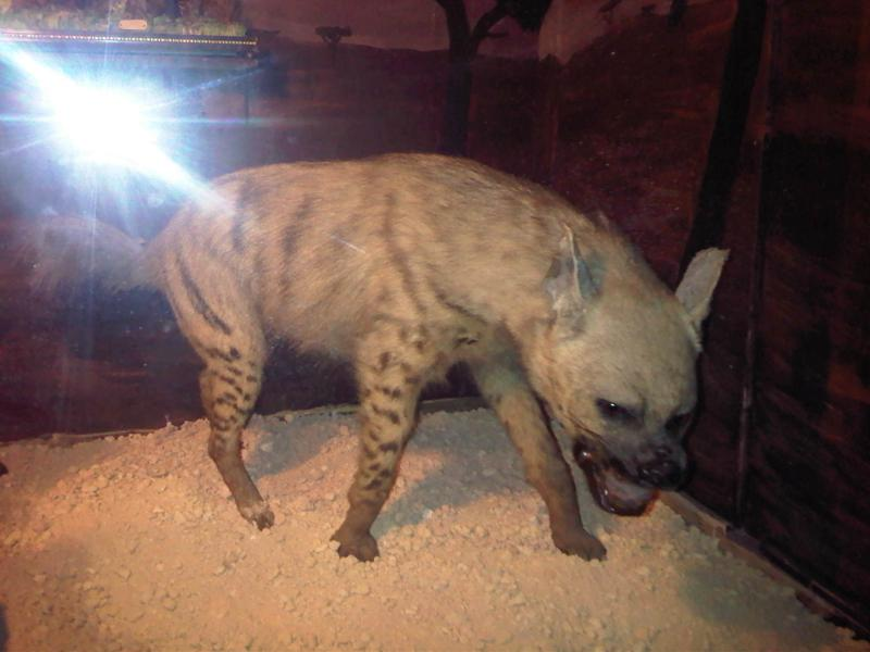 Taxidermied striped hyena (Hyaena hyaena) at the National Museum of Natural History, Vilhena Palace, Republic of Malta.